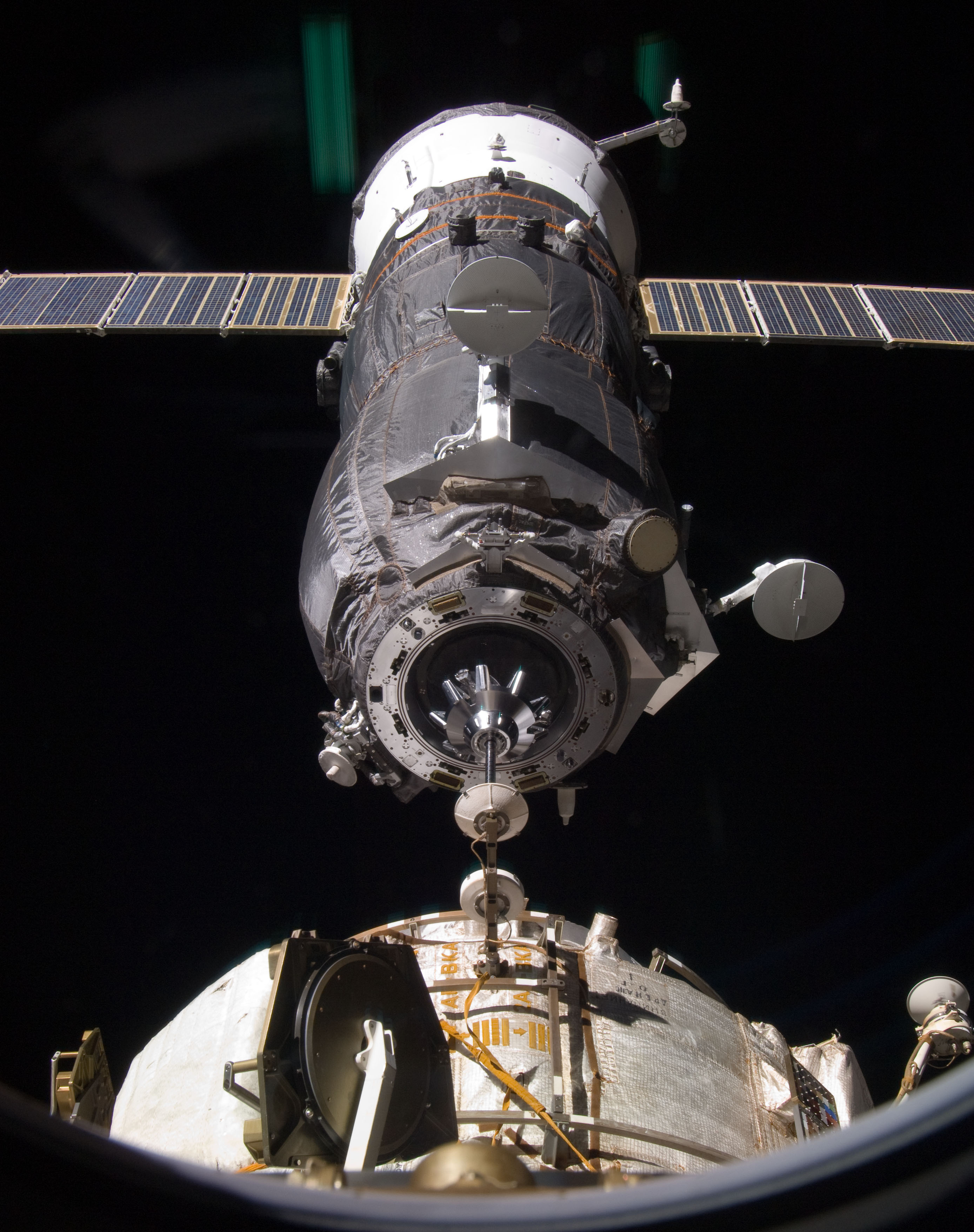 An unpiloted ISS Progress resupply vehicle approaches the International Space Station, carrying 1,653 pounds of propellant, 110 pounds of oxygen, 926 pounds of water and 3,108 pounds of maintenance gear, spare parts, experiment hardware and resupply items for the residents of the space station. Progress 45 docked to the station's Pirs docking compartment at 7:41 a.m. (EDT) on Nov. 2, 2011.